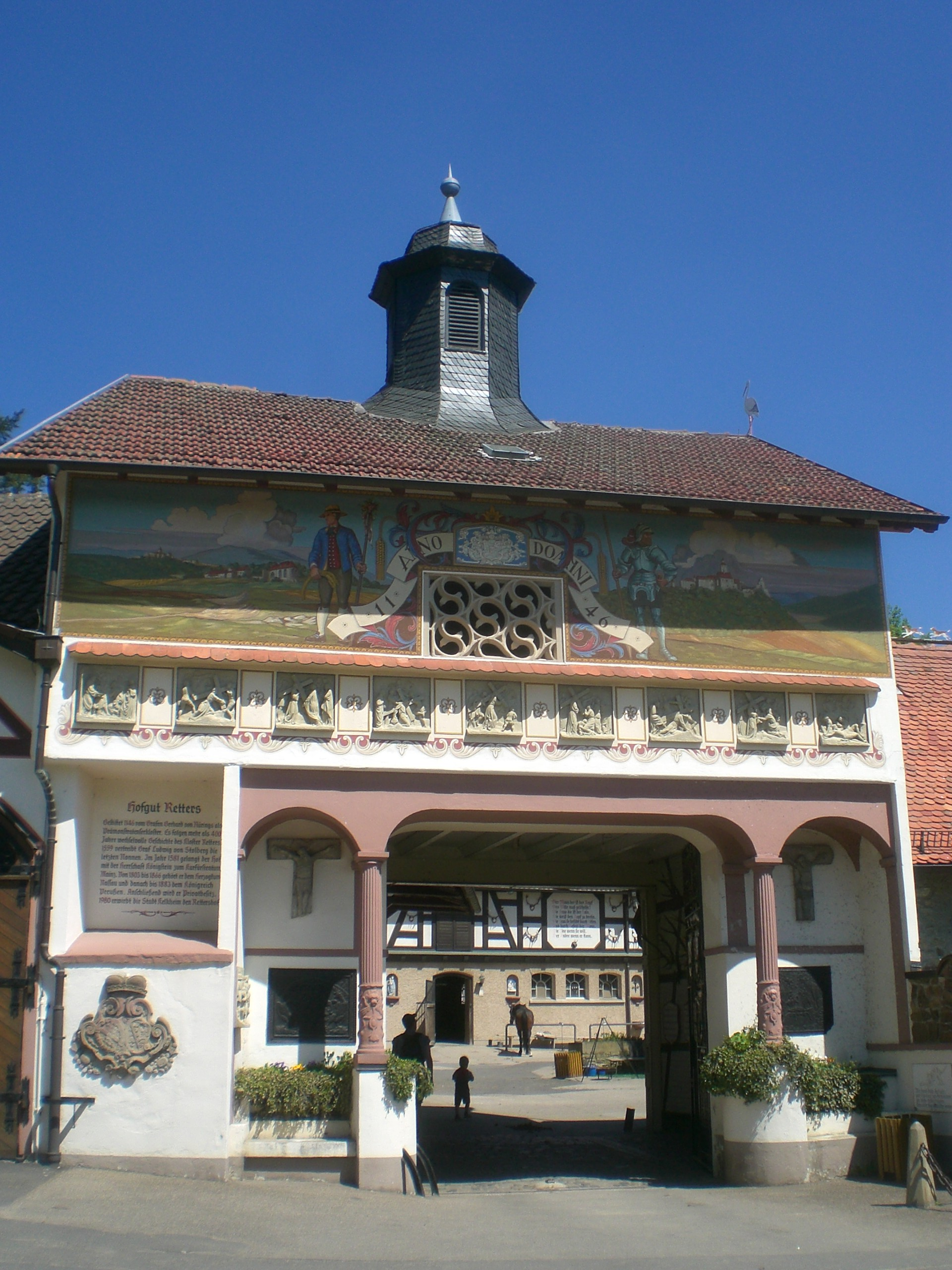 the historical Hofgut Retters (built anno 1146, gate renewed in 1936) in Kelkheim (Taunus)